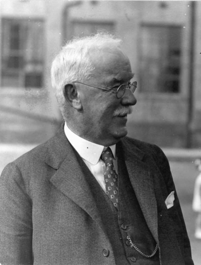 Frederick de Jersey Clere pictured at the Wellington Technical College Jubilee, circa 1936. Photographer unidentified